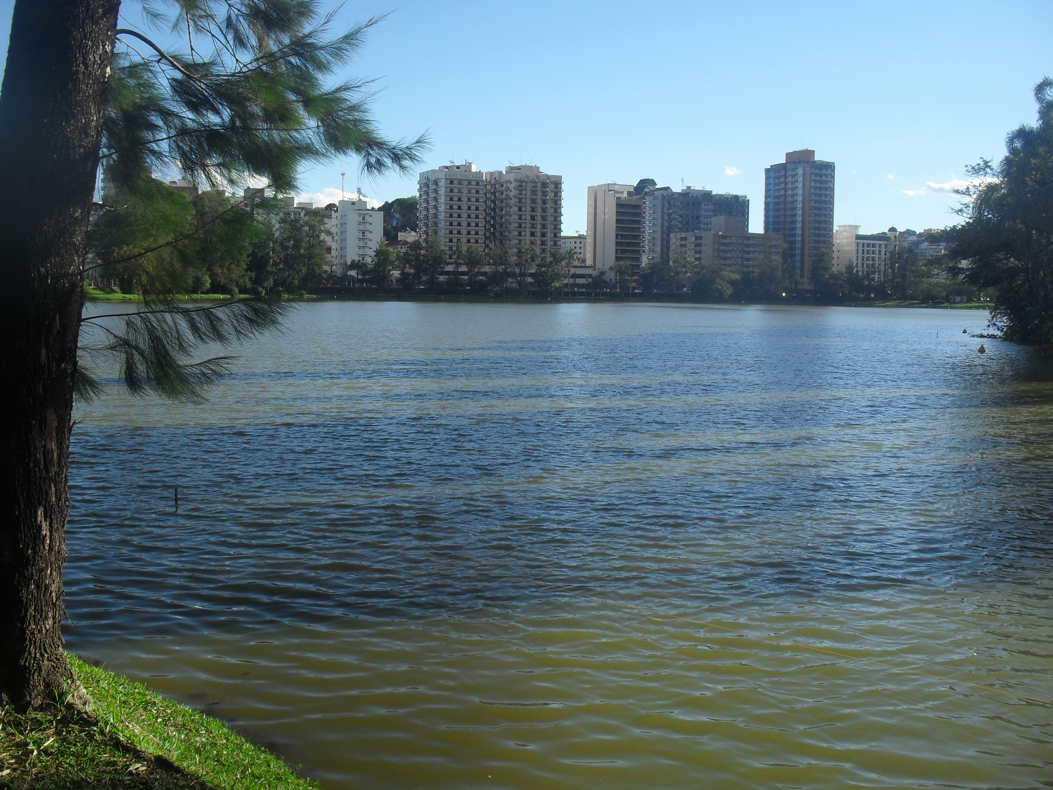 Lake and buildings in São Lorenço, in the southern state of Minas Gerais